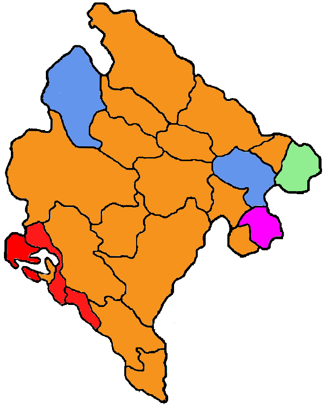 Results of Montenegro, municipal elections, 2016-18 by municipality.